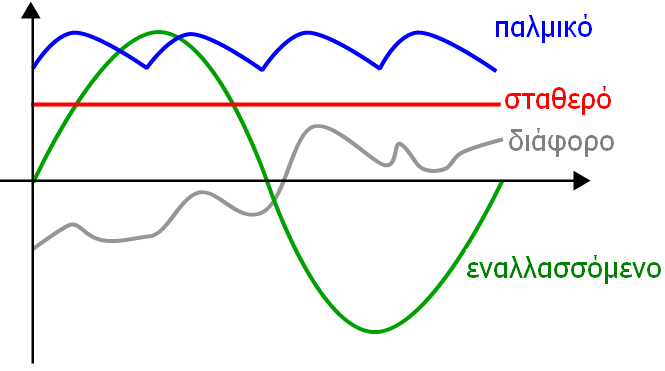 Types of electric current.